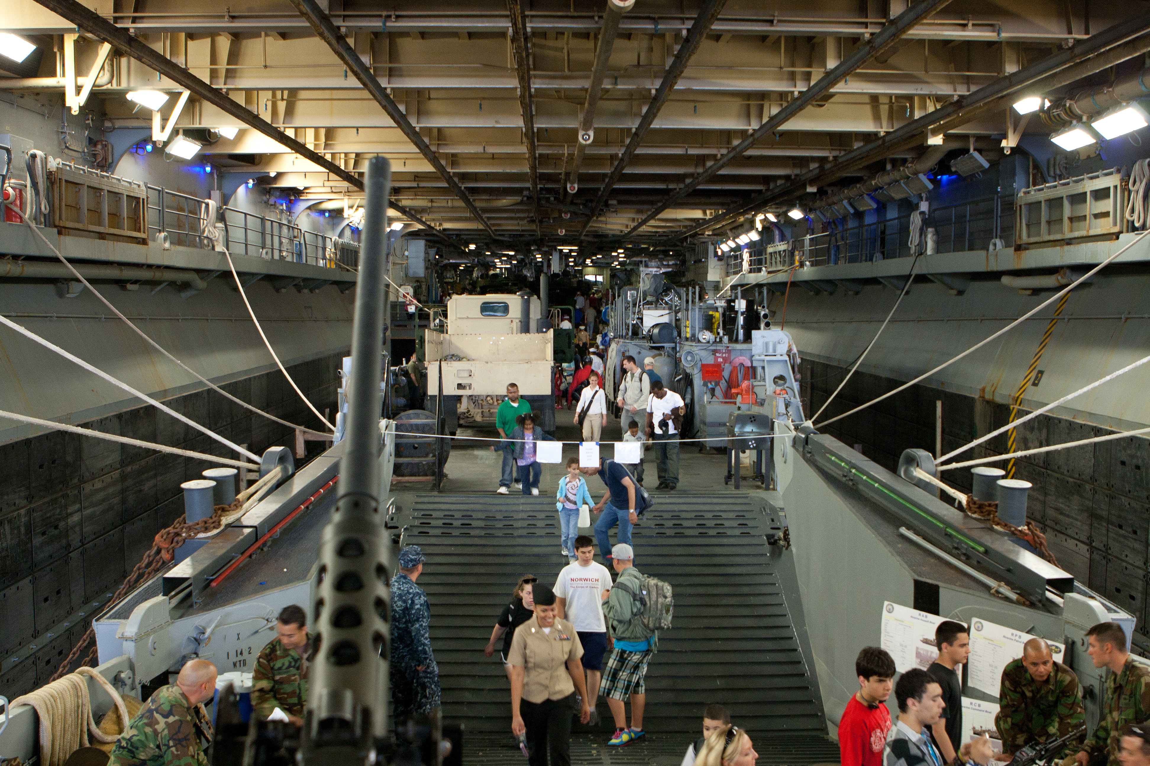 Looking toward the bow of the USS Iwo Jima (LHD-7) (an American Amphibious Assault Ship) from interior during Fleet Week 2010 in New York City